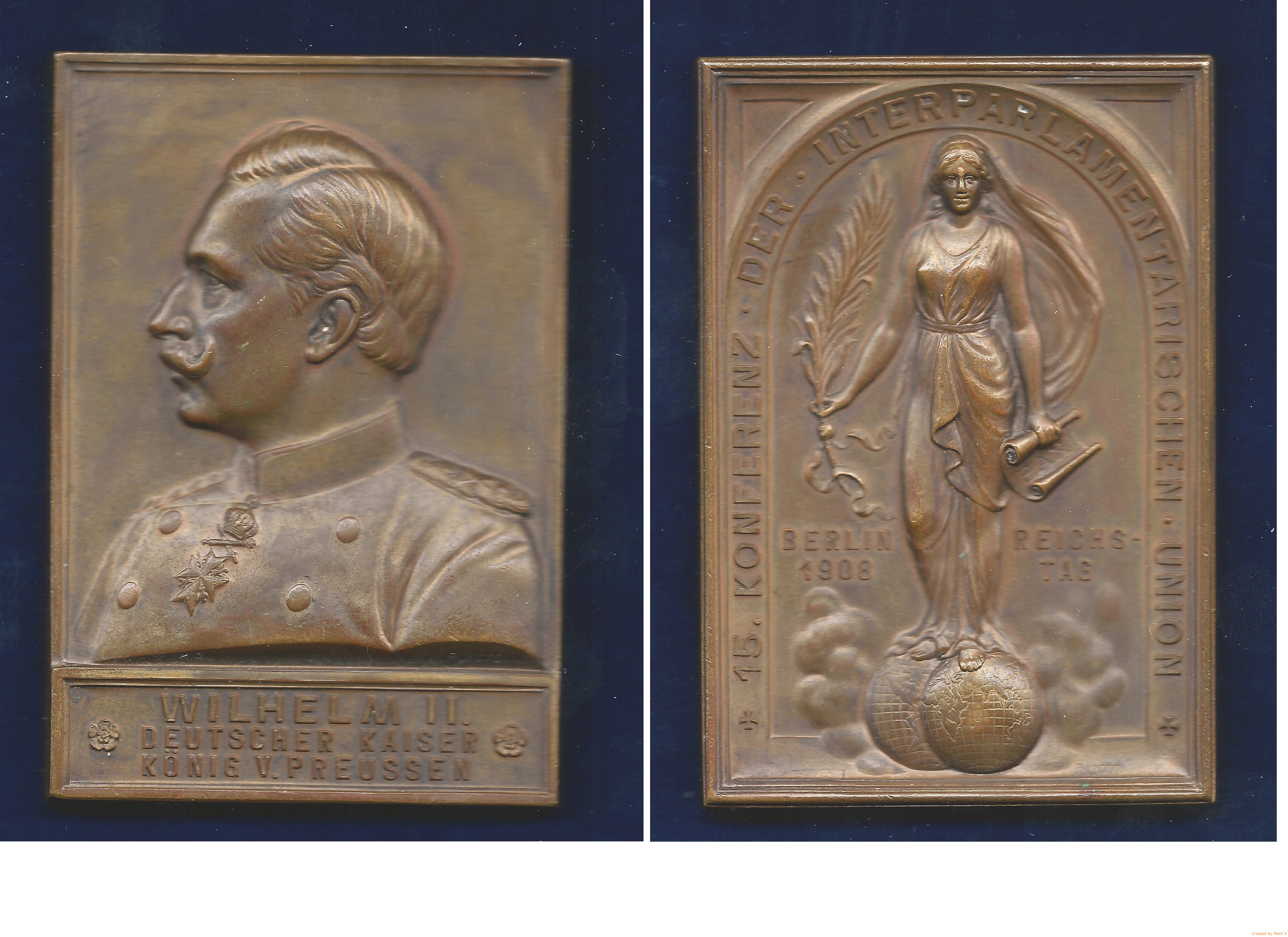 Art Nouveau bronze medallion 47 x 68 mm Wilhelm II, Deutscher Kaiser, 1888 - 1918 Unformed portrait l., 3 lines in exergue: "WILHELM II. DEUTSCHER KAISER KÖNIG V. PREUSSEN"/ 2 lines divided by a Peace Angel facing, and standing on 2 globes showing different views. A palm branch in his r., and a scroll inscribed "PEACE" in his l. hand: ""BERLIN 1908 REICHS-TAG". L., and r., and curved above: "+ 15. KONFERENZ DER INTERPARLAMENTARISCHEN UNION +". Wurzbach 9696. Medallist: R. (Rudolf) Otto, 1938 Dresden - 1913 Berlin Condition : EXTREMELY FINE+.